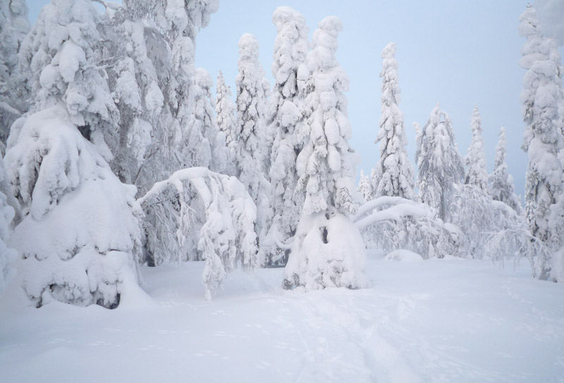 Picture from the nature reservate of Vitberget, Kalvträsk, Skellefteå, Västerbotten. jan 2013.